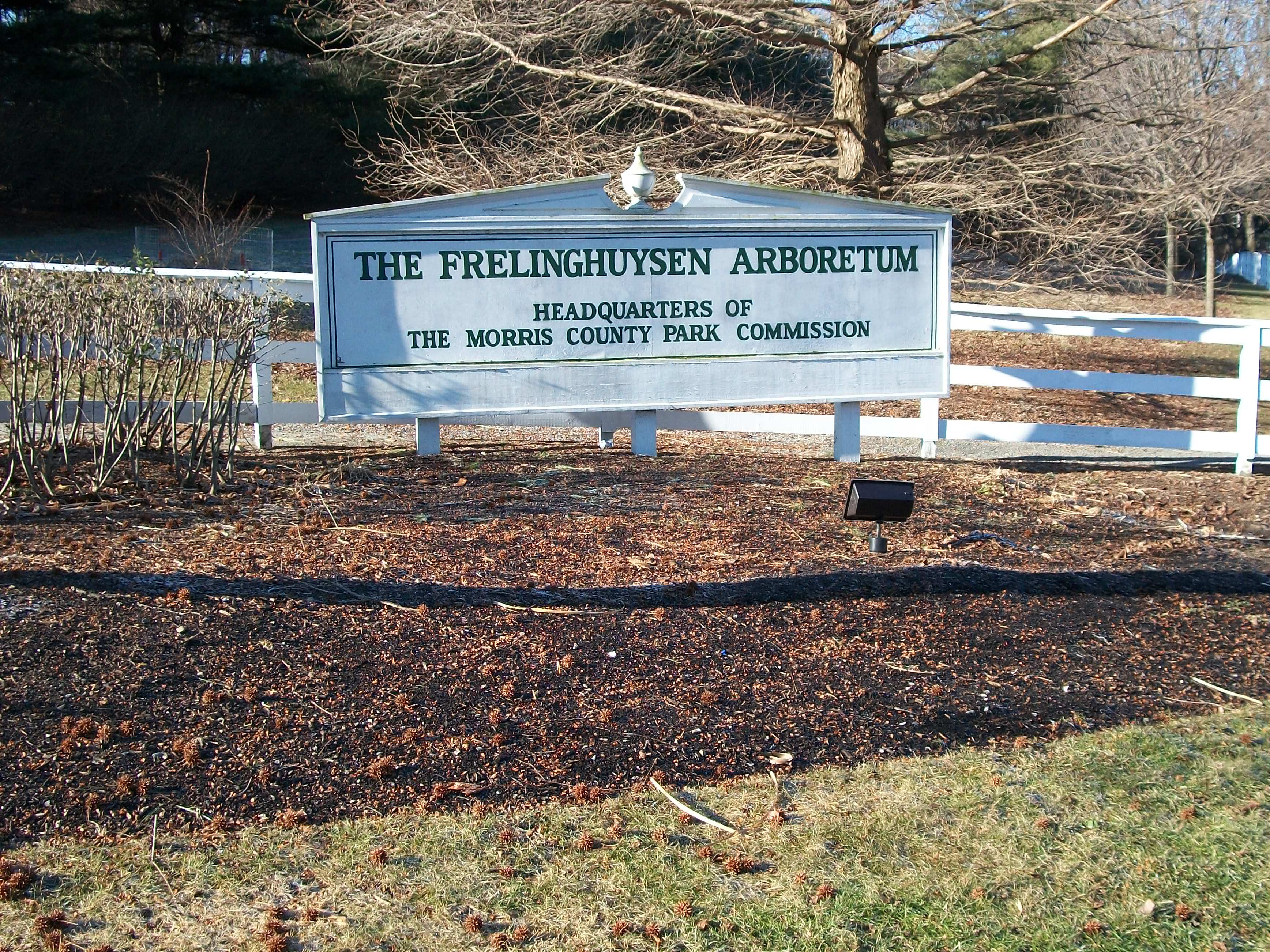 Welcome sign at the Frelinghuysen Arboretum in Morristown, NJ.